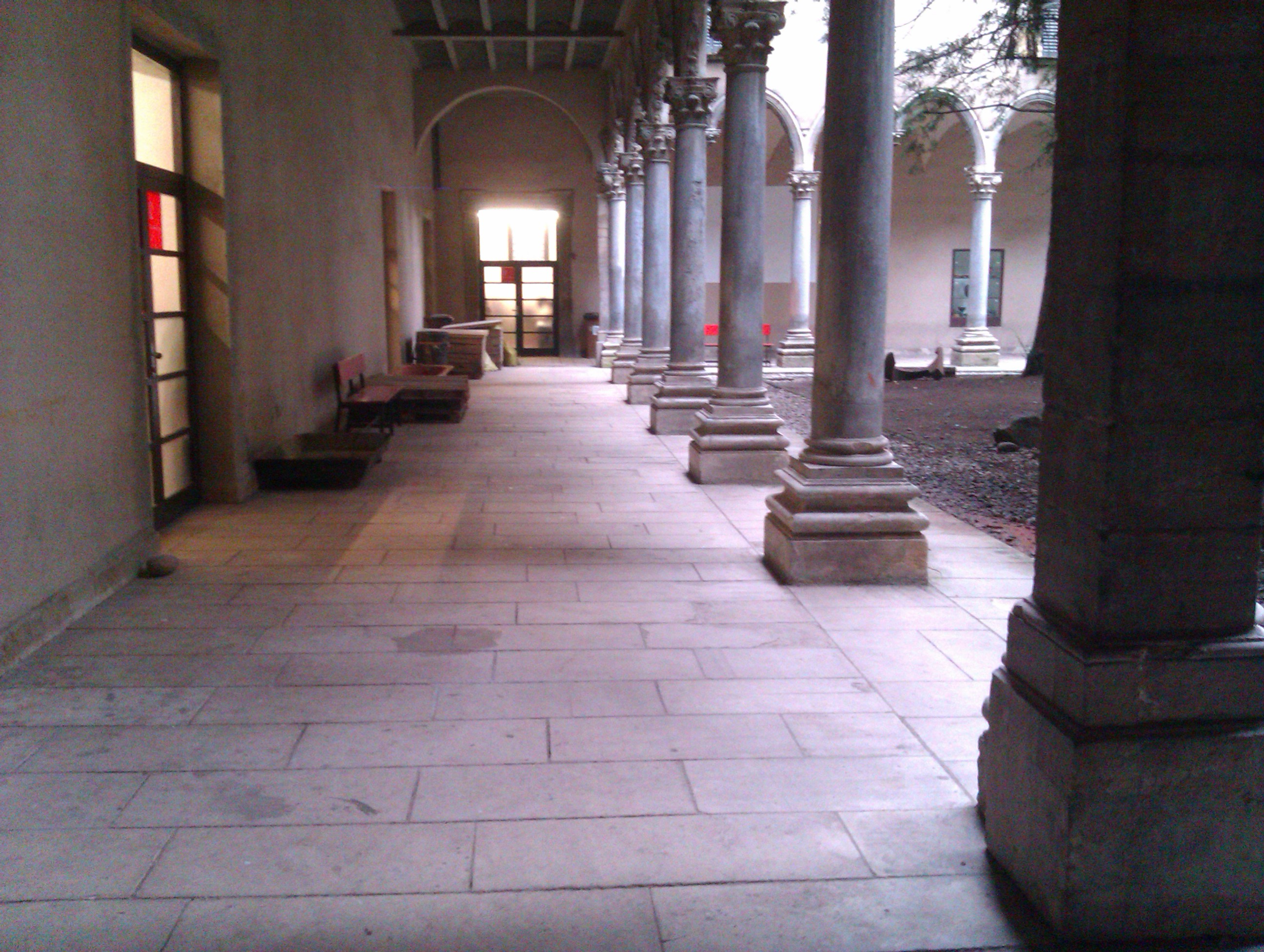 Vic School of Art courtyard